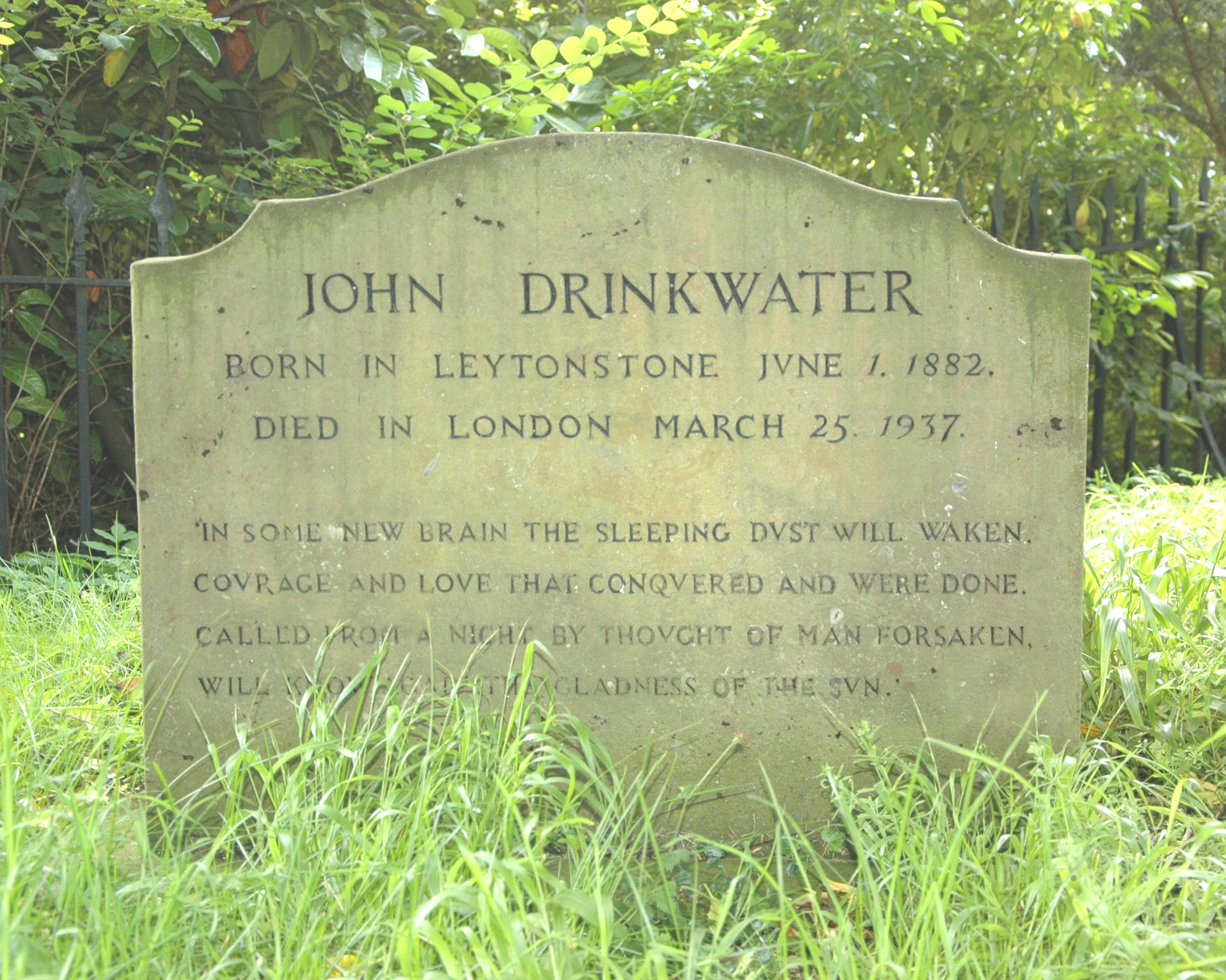 Gravestone of John Drinkwater (1882–1937) in St Nicholas' parish churchyard, Piddington, Oxfordshire